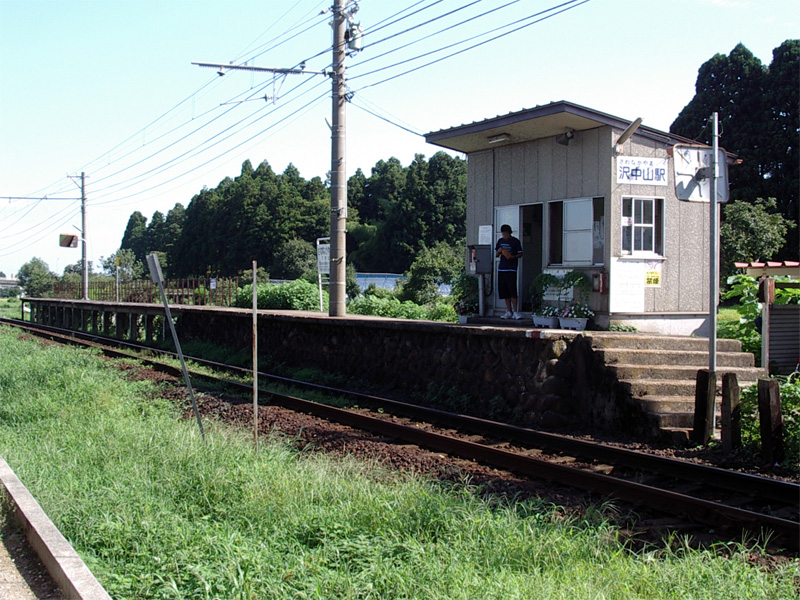 Sawanakayama Station on the Toyama Chiho Railway Tateyama Line in Tateyama, Toyama Prefecture, Japan